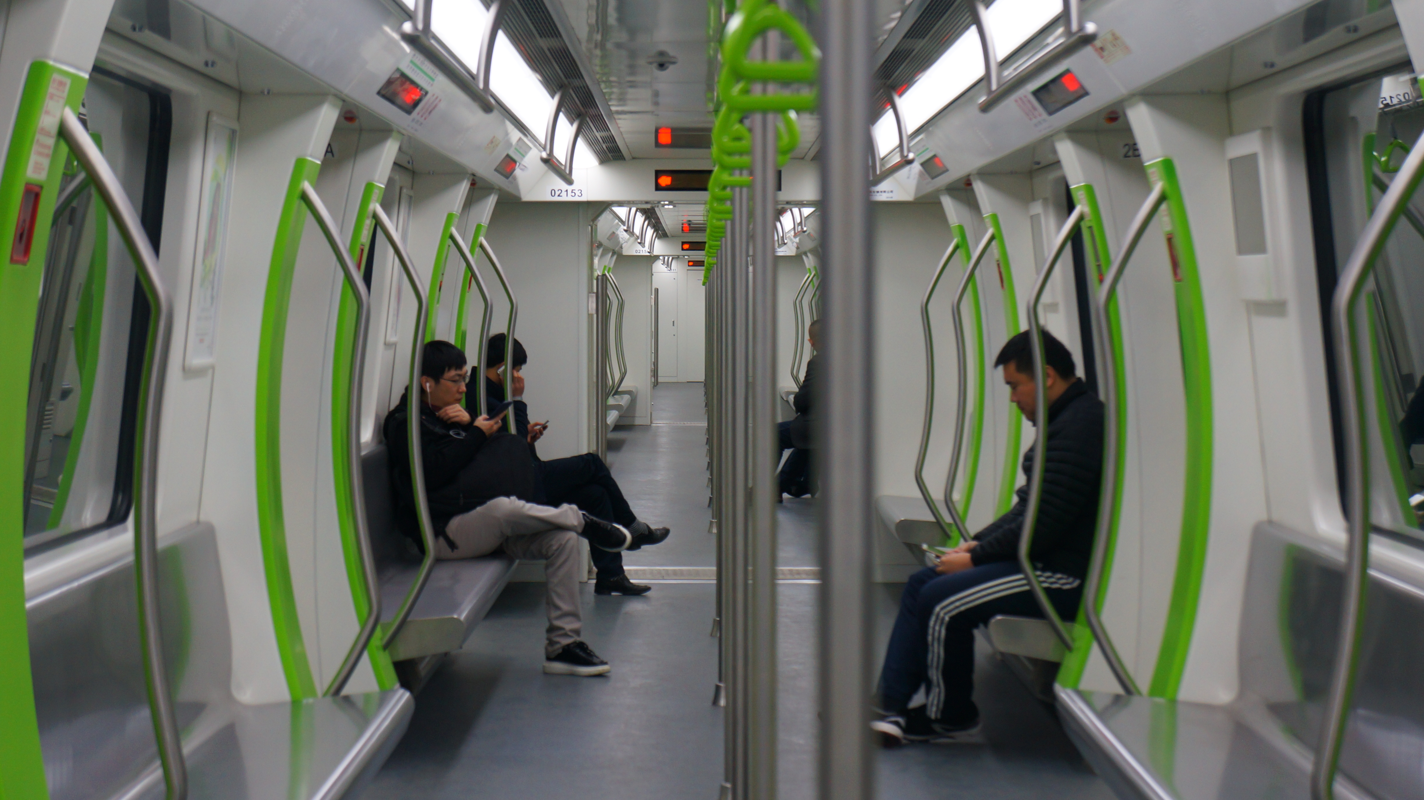 201603 Interior of Wuxi Line 2 Vehicles